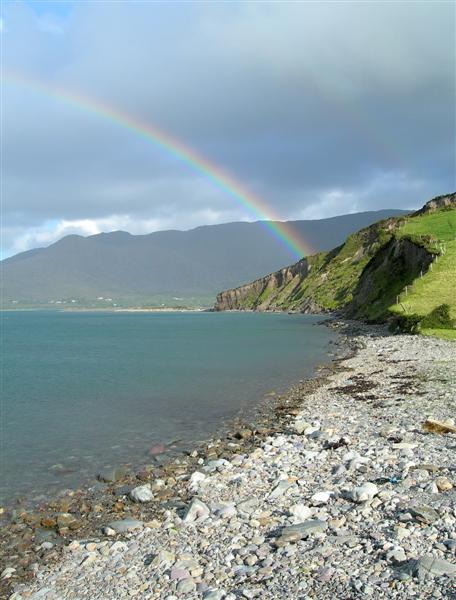 Pulleen Strand The rainbow marks a spring shower passing The Strand.